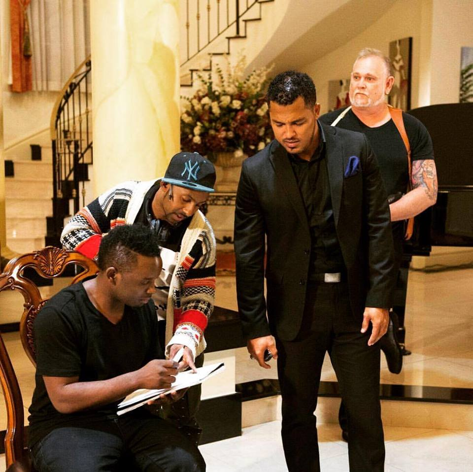 John K-ay, Prema Smith and Van Vicker on set during the production of their 2017 film Cop's Enemy